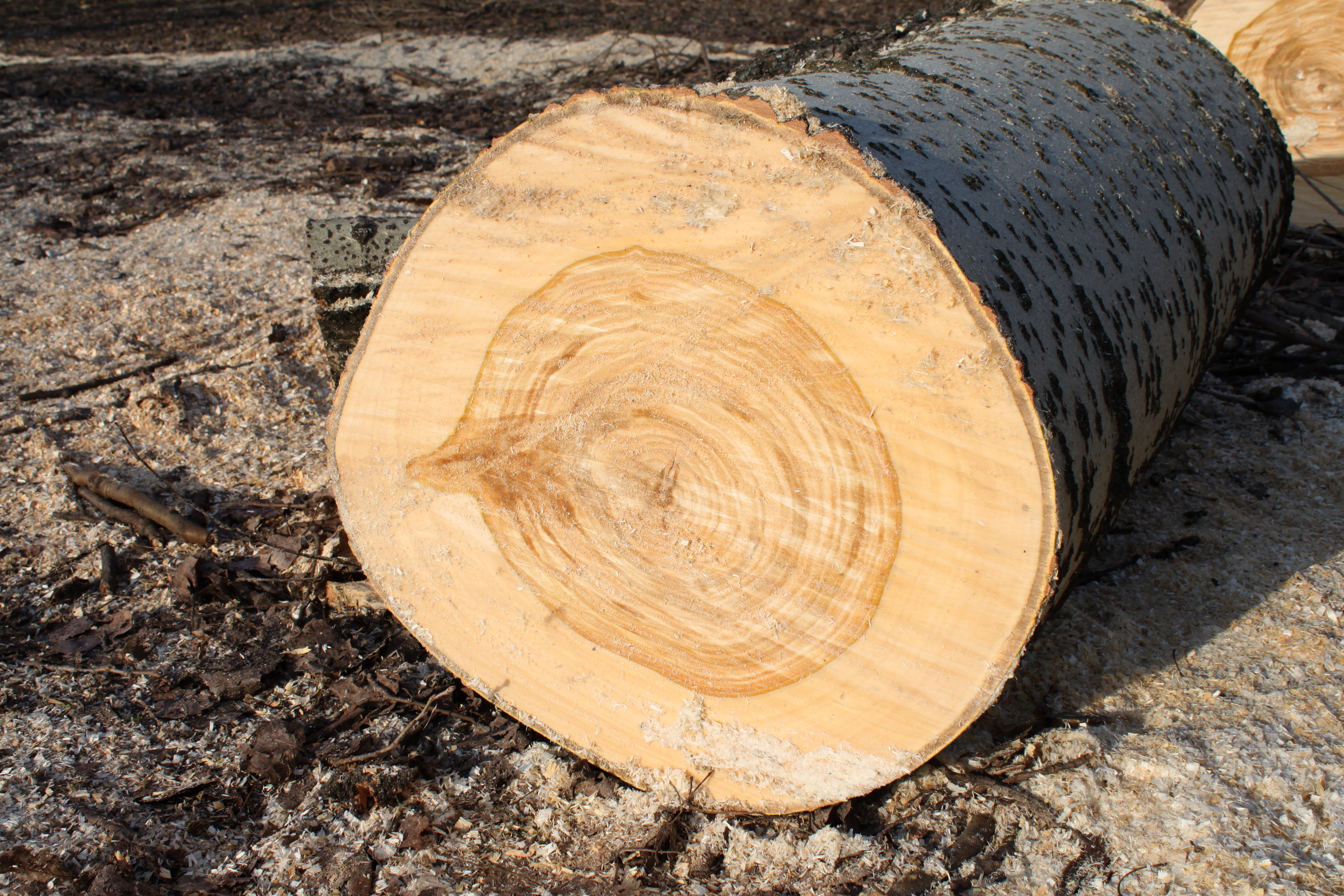 Populus alba cross section (⌀ 50 cm, 9,4 m over ground); Marki, Poland